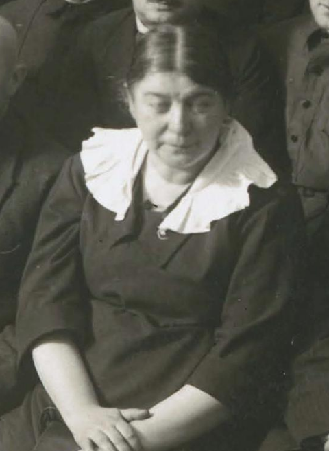 Khaye Malke Lifshits (Ester Frumkin) in the audience at the first conference of GEZERD (The Society for the Settlement of Jewish Toilers on the Land), Moscow, 1926